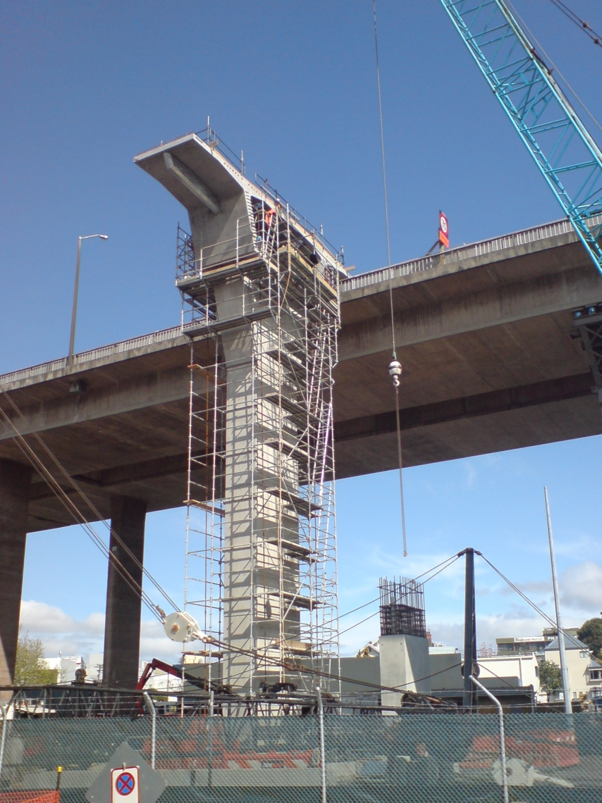 A column of the Newmarket Viaduct replacement rising in Auckland City, New Zealand. Approximately mid-late 2009.